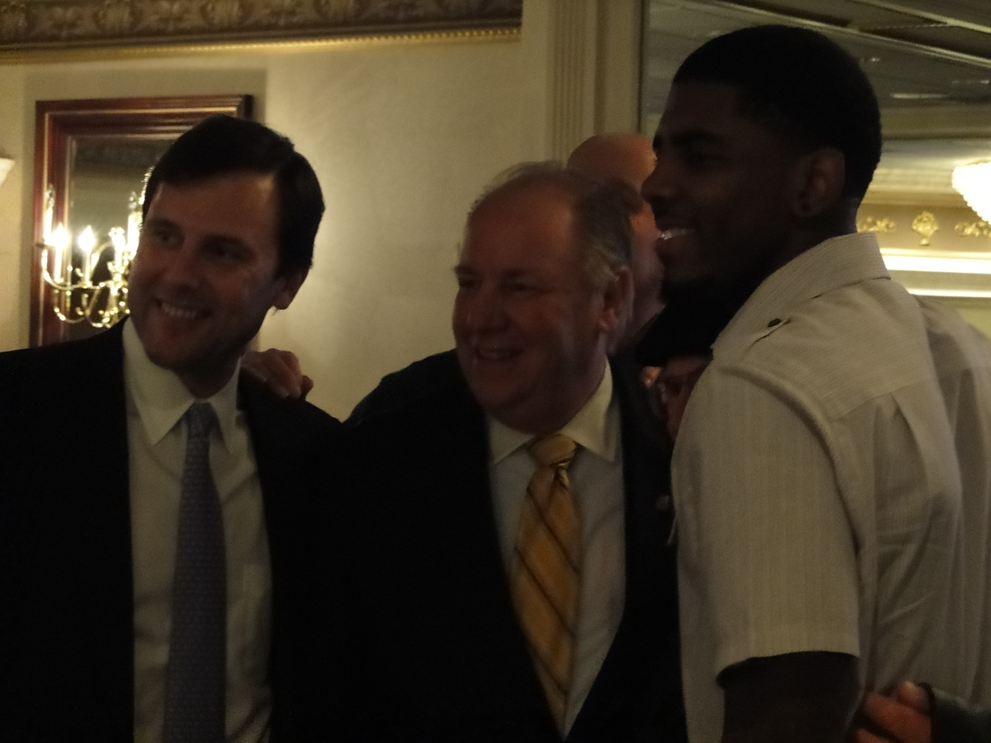 Kyrie Irving and Tom Kean